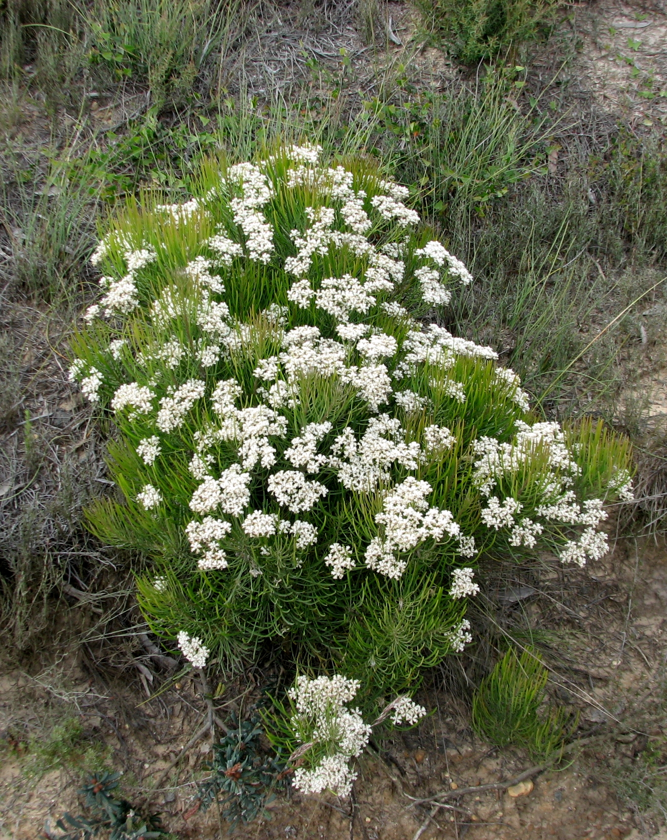 Conospermum mitchellii, Anglesea Heath, Victoria, Australia